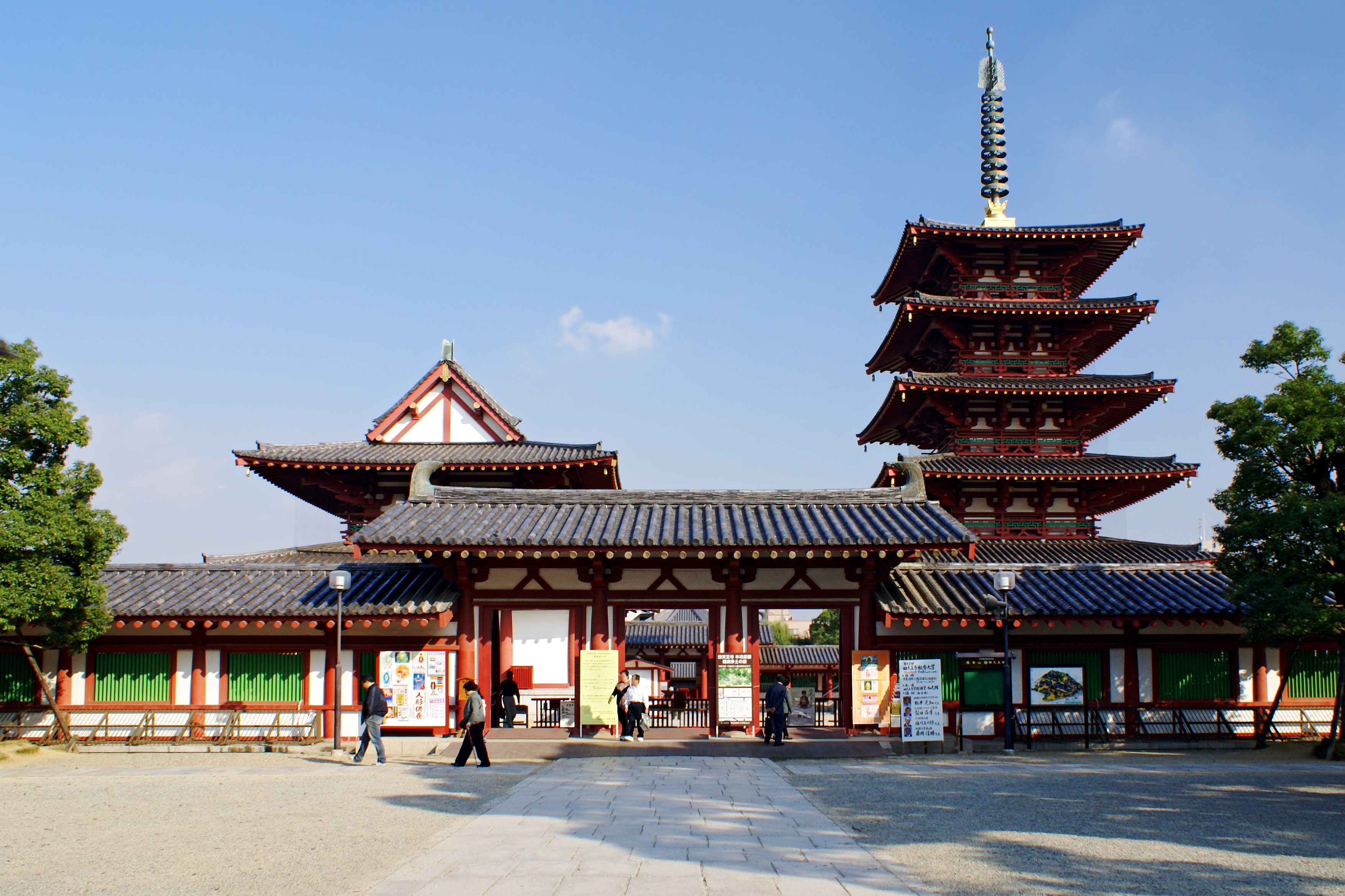 Shitennō-ji in Osaka, Osaka prefecture, Japan